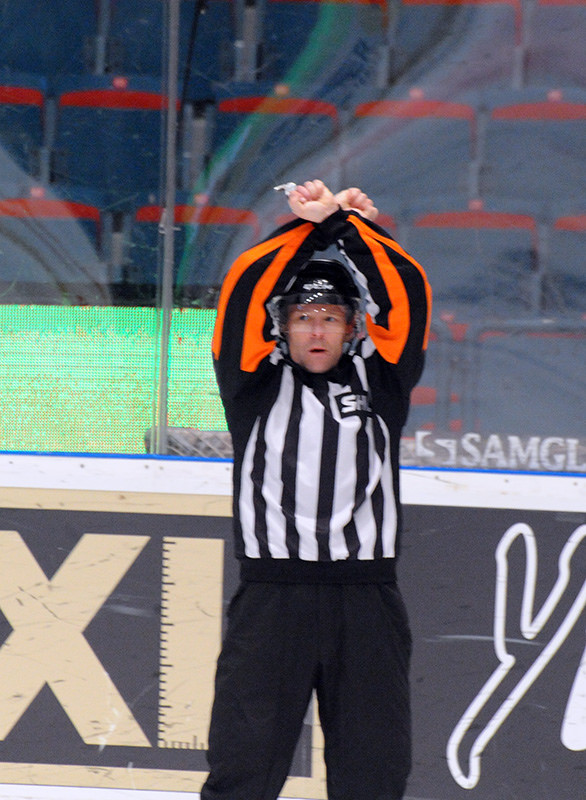 SHL referee showing the signal for a penalty shot during the game AIK vs. Linköping